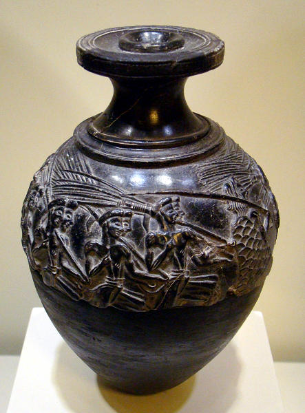 Stone rhyton with a scene og harvesters returning from the fields. From Agia Triada. Herakleion Archeological Museum